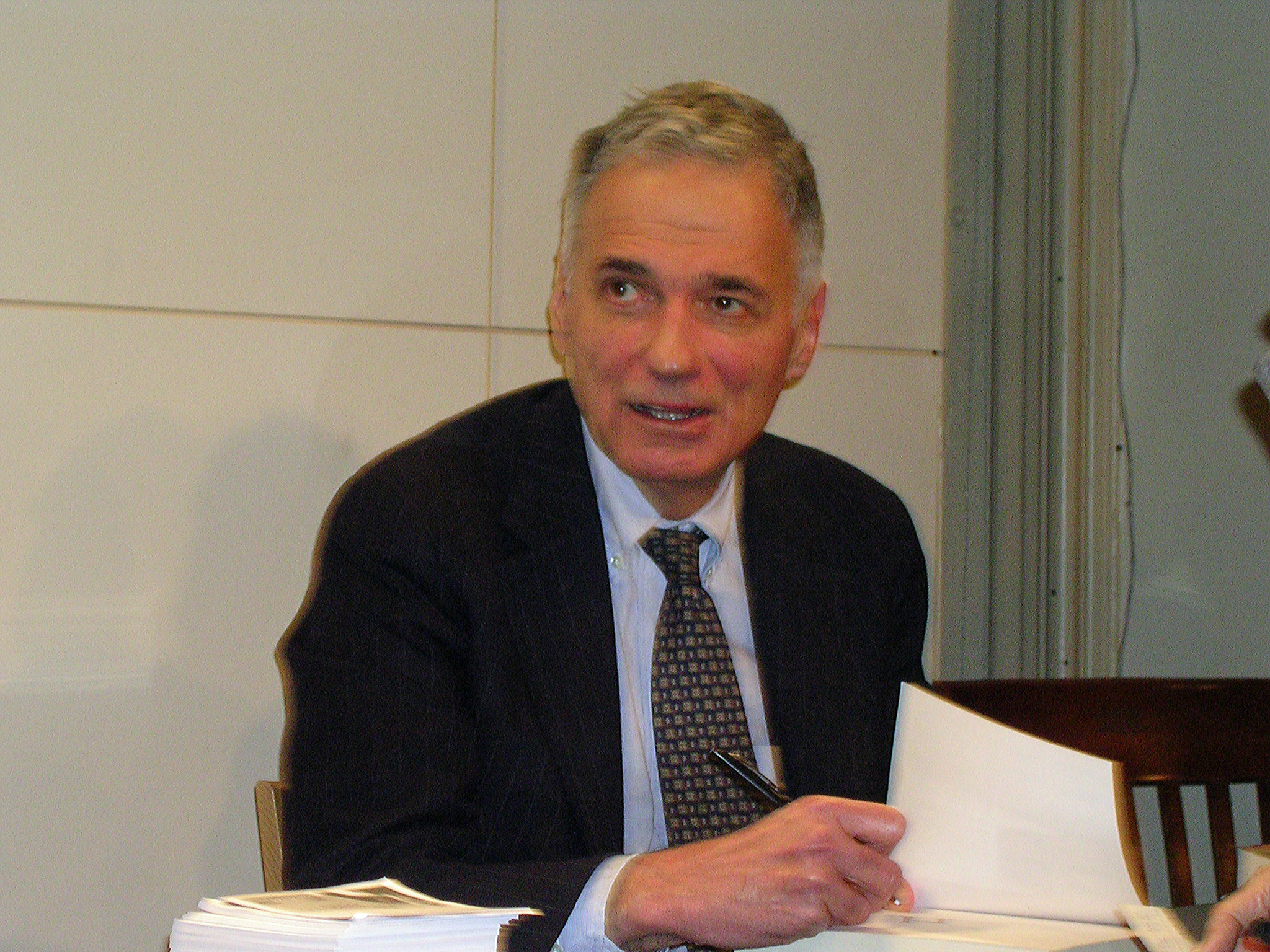 Nader promoting his book The Seventeen Traditions' January 30, 2007 at Barnes & Noble - Union Square in New York City, New York, United States